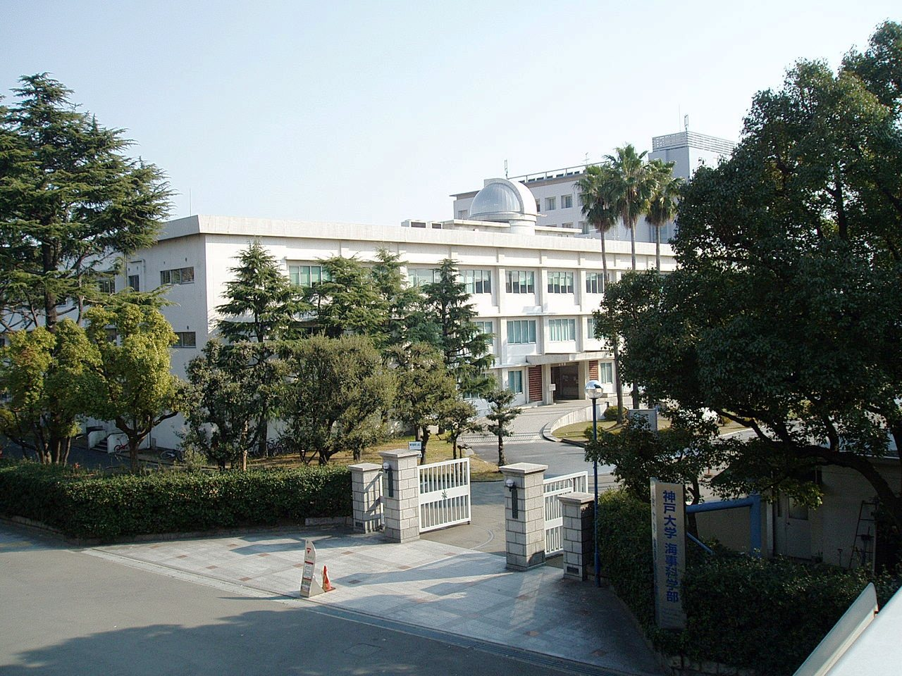 Fukae Campus (Faculty of Maritime Sciences), Kobe University.